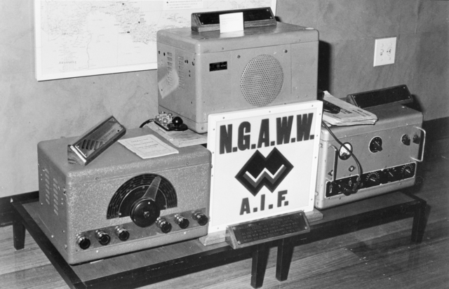 Radio transmitter and receiver 3BZ used by spotters of the New Guinea Air Warning Wireless Company (NGAWW). The AWA Teleradio 3A was designed and introduced into service in 1935 and continued until 1940. It was made specifically for tropical, jungle and island use and was commonly used for civil and domestic communications. It was Papua and New Guinea's counterpart of Australia's Pedal Wireless. Some early sets were available with Pedal generators. The transmitters had tunable frequencies, output 10 watts. The receivers had short wave and medium wave reception. it was superceded in1940 by the 3B,and in 1942 by the 3BZ (pictured). The AWA Teleradio 3BZ was the result of a substantial upgrade of the 3A in 1940 to the 3B and in 1942 to the 3BZ, a vastly more sophistocated unit with 13 watt ouput and crystal controlled transmitter. The receiver had a 5 band capacity. These were designed for civilian use, but many became available when civilians over military age, including many older Coastwatchers, were evacuated from New Guinea. Army radios were unavailable so the Spotters and the Coastwatchers adopted these most satisfactory units.